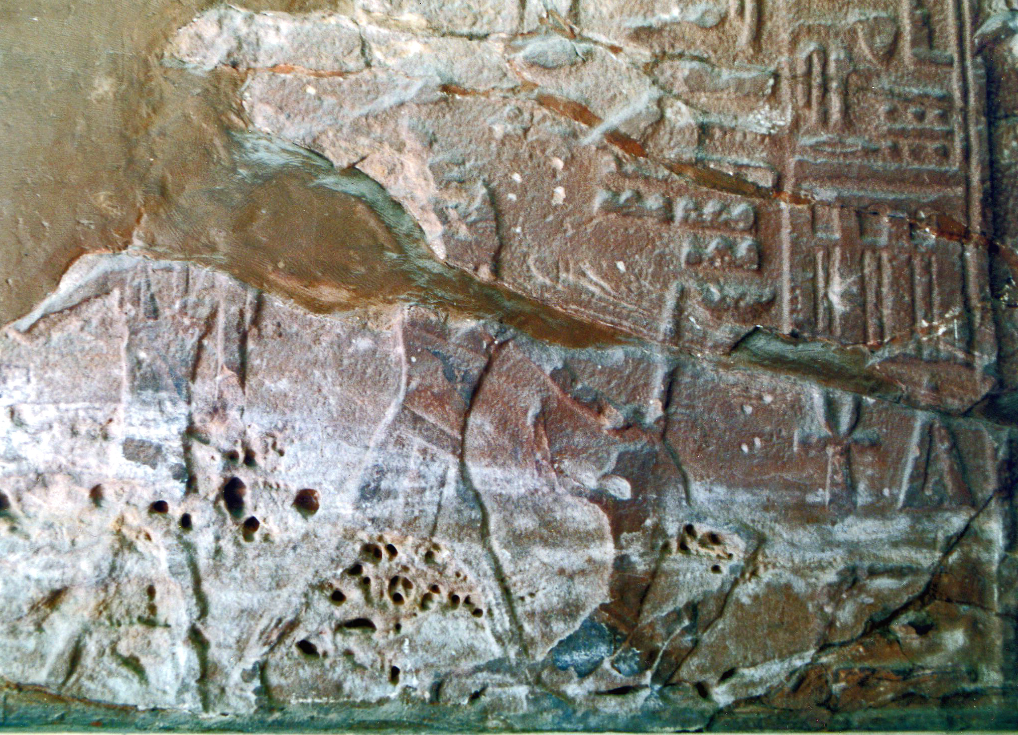 Niuserre Iny smiting an Asiatic, Wadi Maghara, Sinai. Following the tradition established by his predecessors, Niuserre Iny, embarked on a campaign of exploitation in the mining region of Wadi Maghara. Egyptian Museum, Cairo.